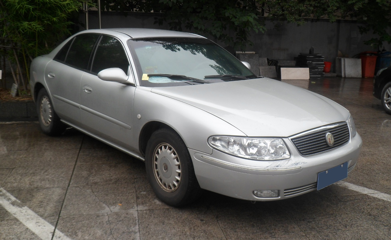 Buick Regal CN photographed in Shanghai, China.